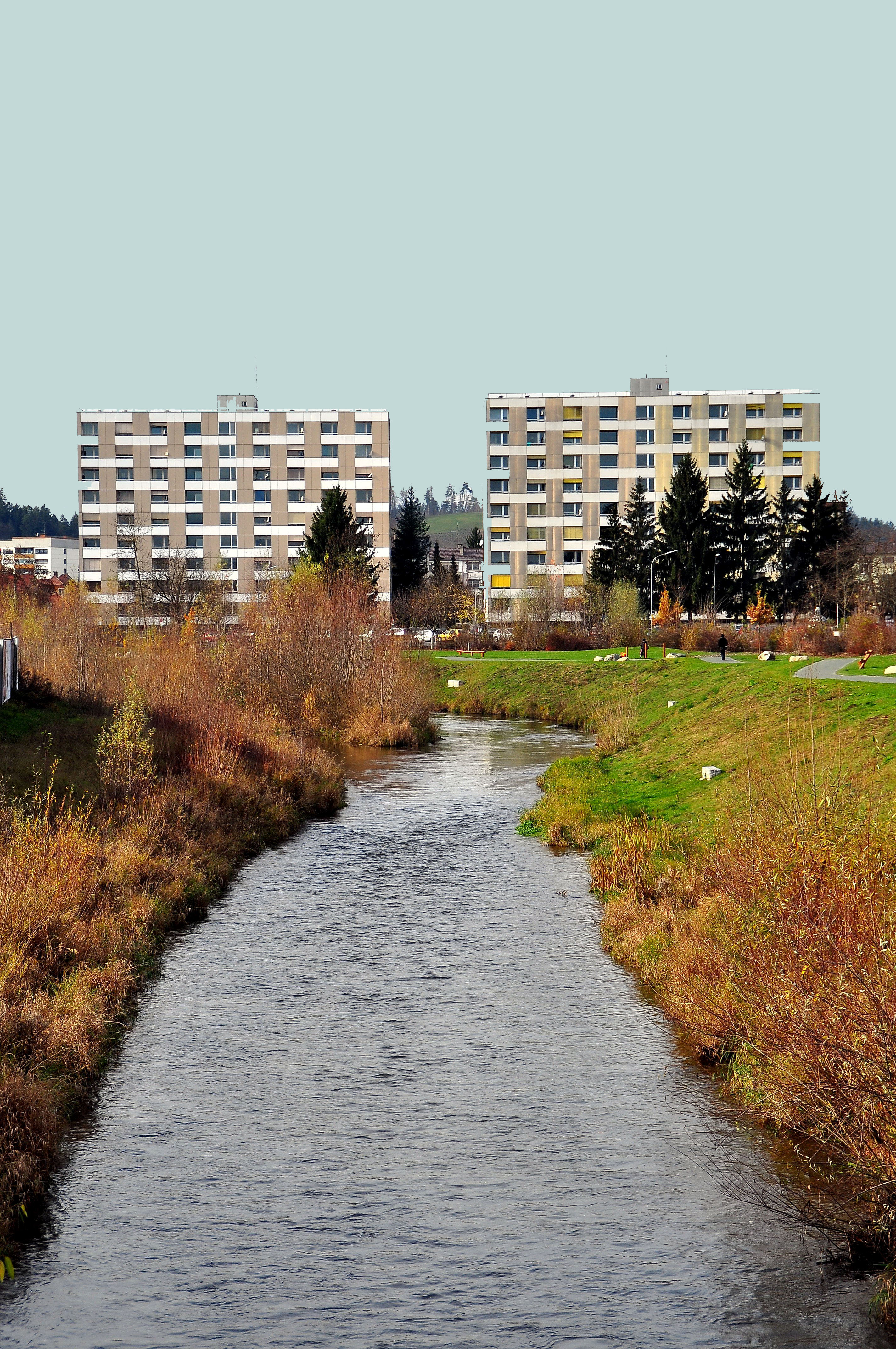 Glanpark along the Glan river, the Grete Bittner Street and the Feschnig street in 9th district “Annabichl” of Klagenfurt, Carinthia, Austria